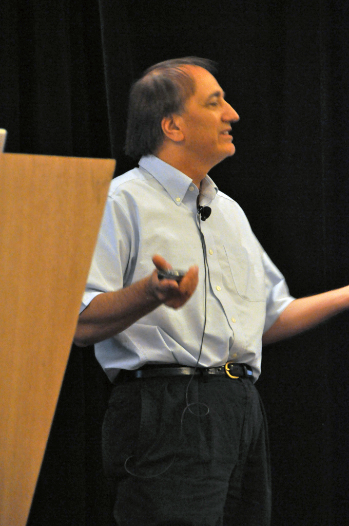 Pat Hanrahan, CTO & co-founder